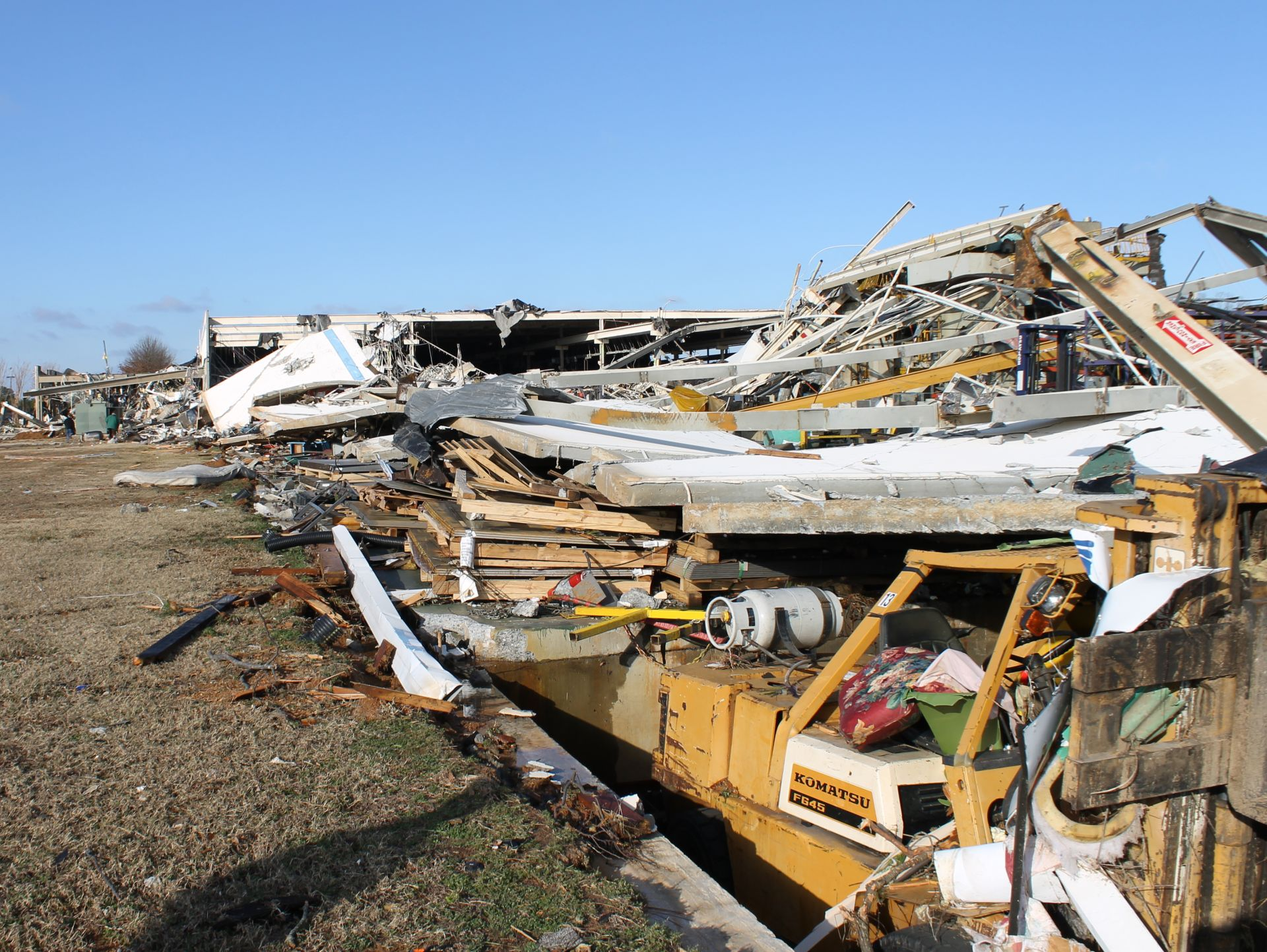 A Daiki Corporation facility destroyed by the Adairsville, Georgia tornado on January 30, 2013. Damage at this location was rated high-end EF3, with maximum winds estimated at 160 mph.